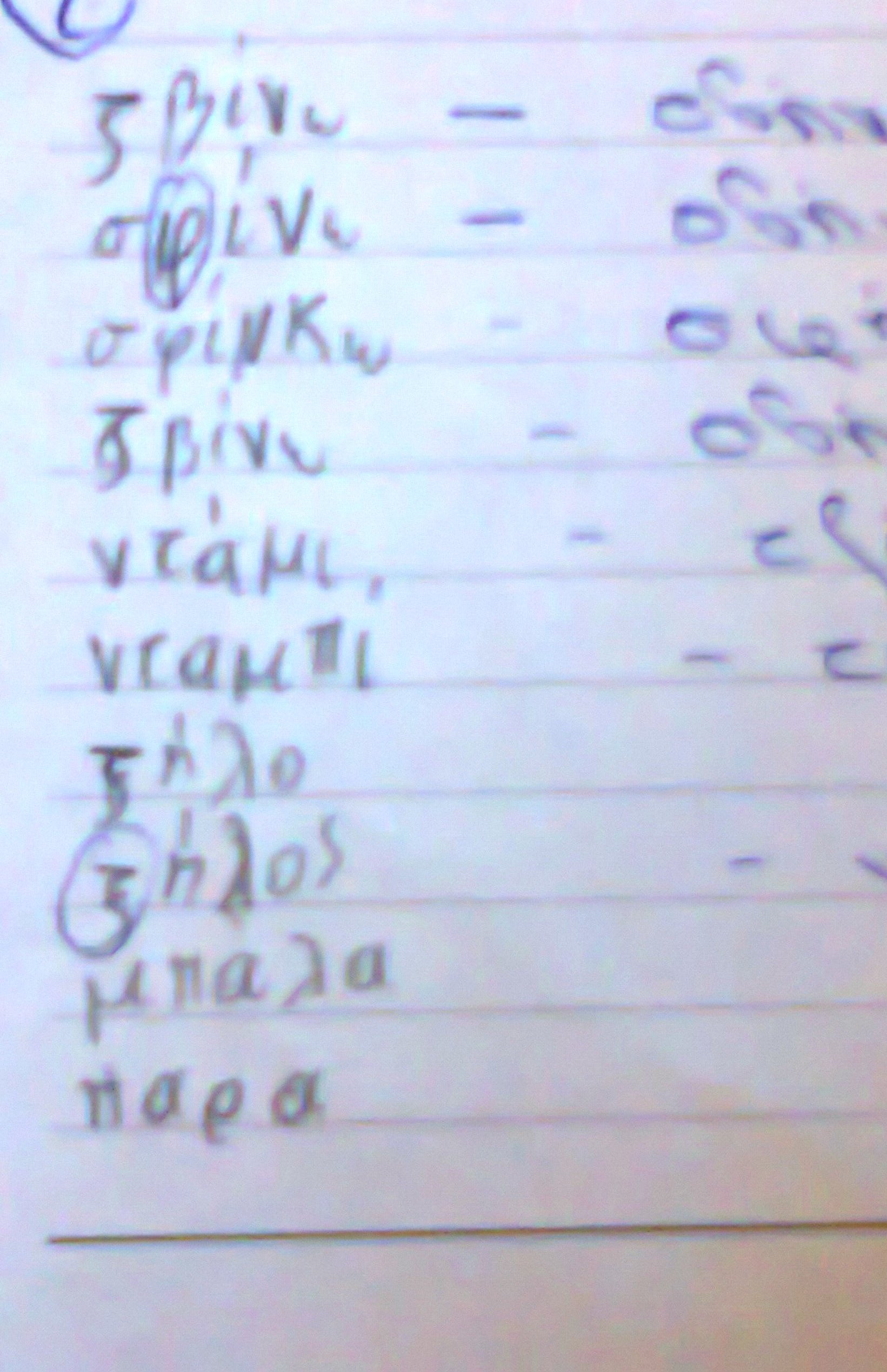 Sample of dyslexic handwriting in Greek. For a list of the "correct" words, see Greek description.